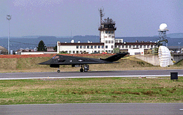 An F-117A Nighthawk lands at Spangdahlem Air Base, Germany, 4 April 1999 following a 12-hour flight from Holloman Air Force Base, N.M. The stealth fighters are in Germany to support NATO air strike operations in the former Republic of Yugoslavia. (Photo by Senior Airman Laura Sparks)